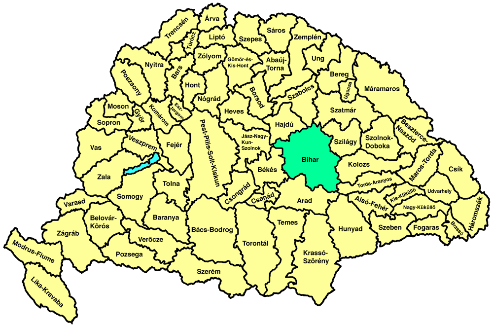 Map of Hungary - County Bihar